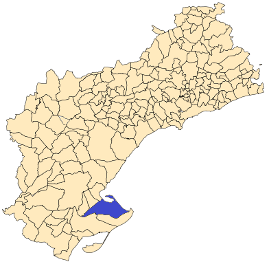 Deltebre